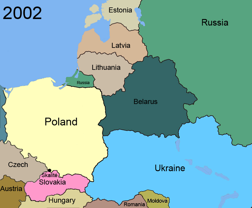 Poland-Slovakia 2002 border exchange